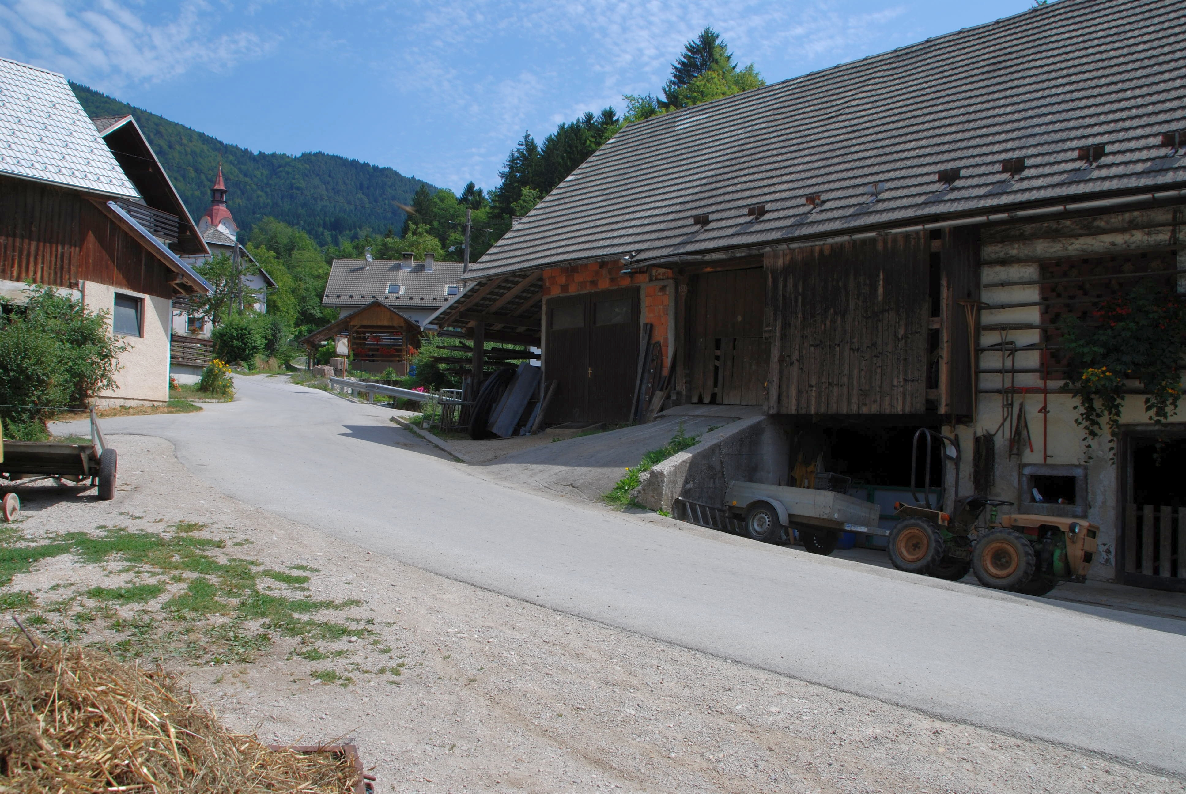 Leše, a village in the Municipality of Tržič (northwestern Slovenia).